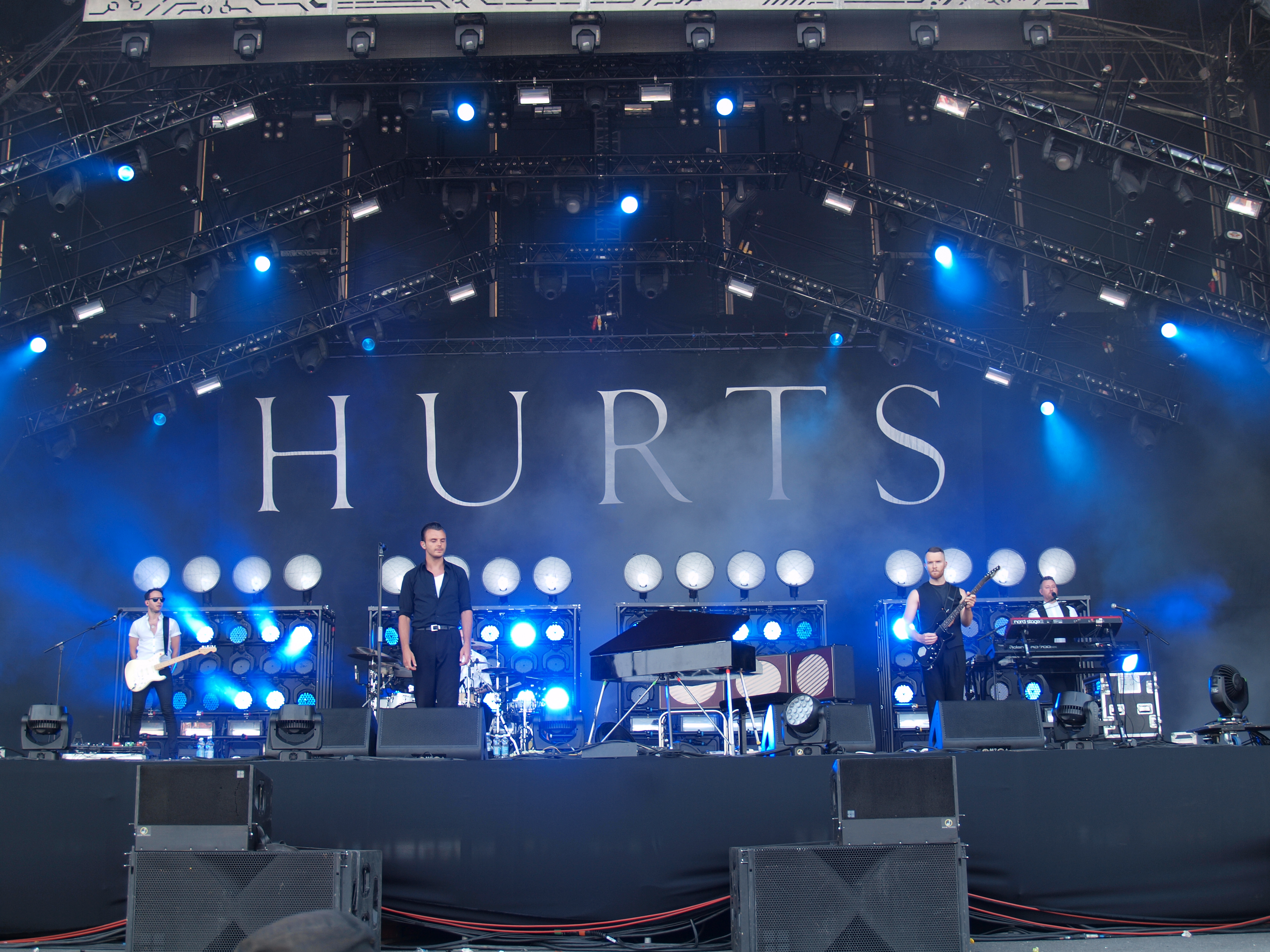 Hurts, a British pop boy band, performing live at Pori Jazz 2014 in Kirjurinluoto, Pori, Satakunta, Finland. There were hundreds of ecstatic teenage girls right in front of the stage enjoying their favourite boy band. This was the first time I had heard of the band's whole existence.